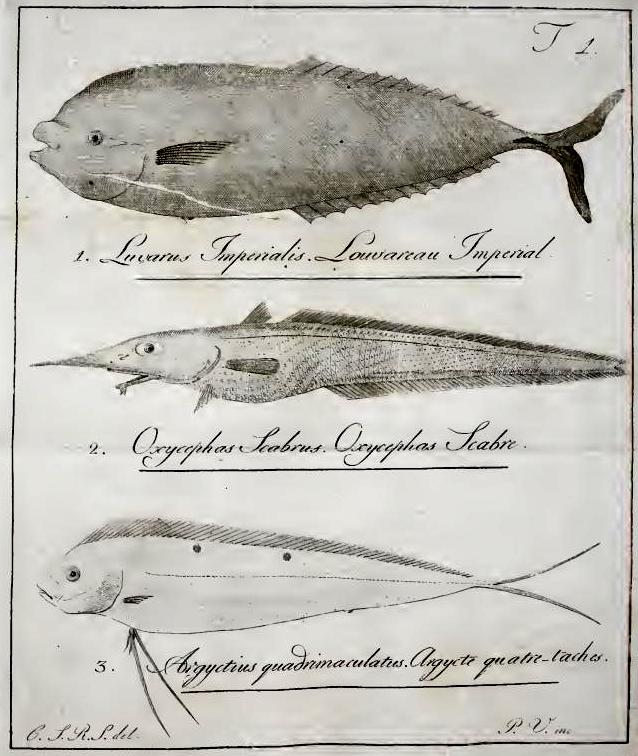 Sketches from C.S. Rafinesca taken from Ittiologia siciliana (1810)